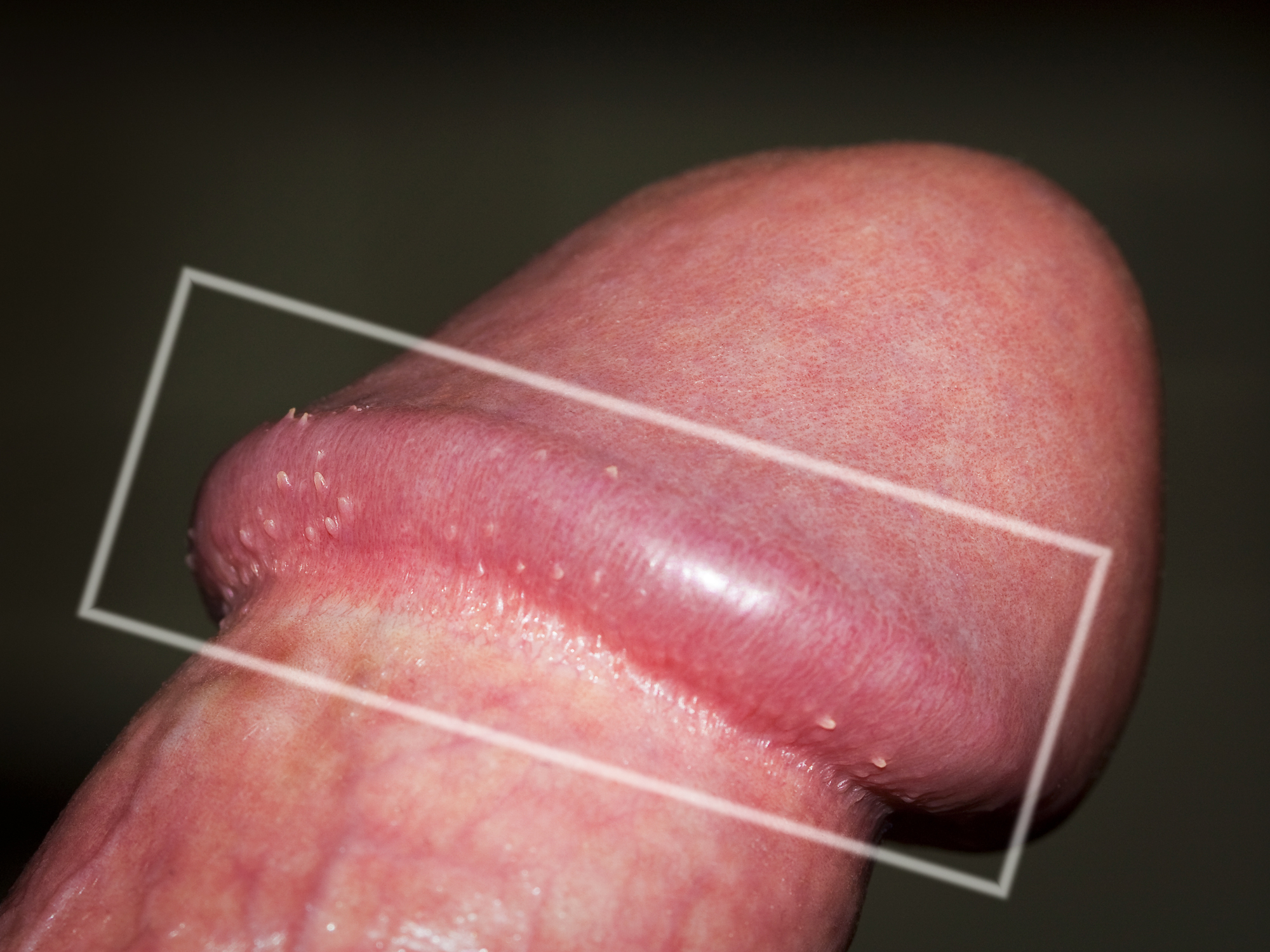 Corona of glans penis with hirsuties papillaris genitalis